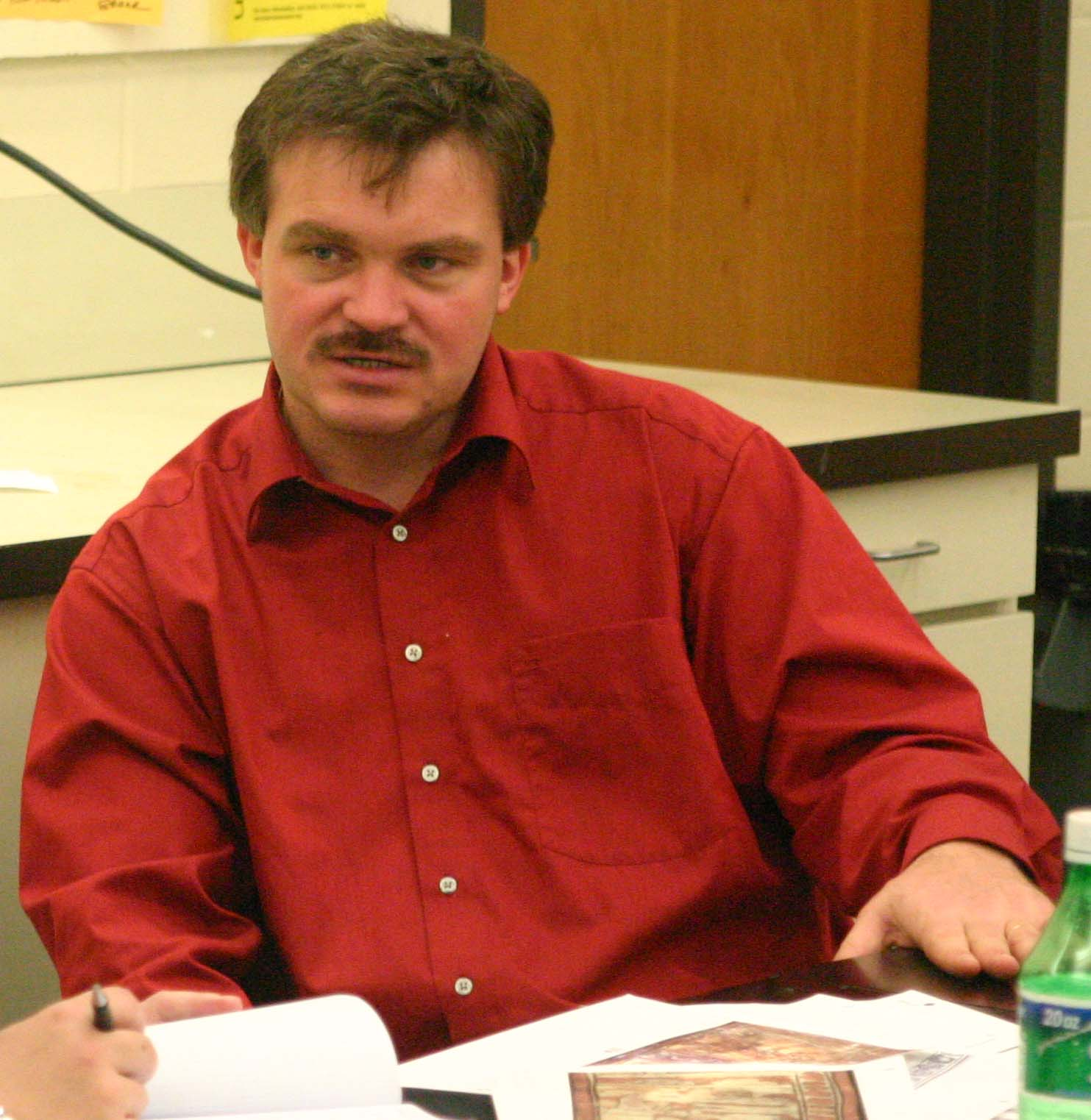 Picture of Nikolai Grube at the 1994 Maya Meetings